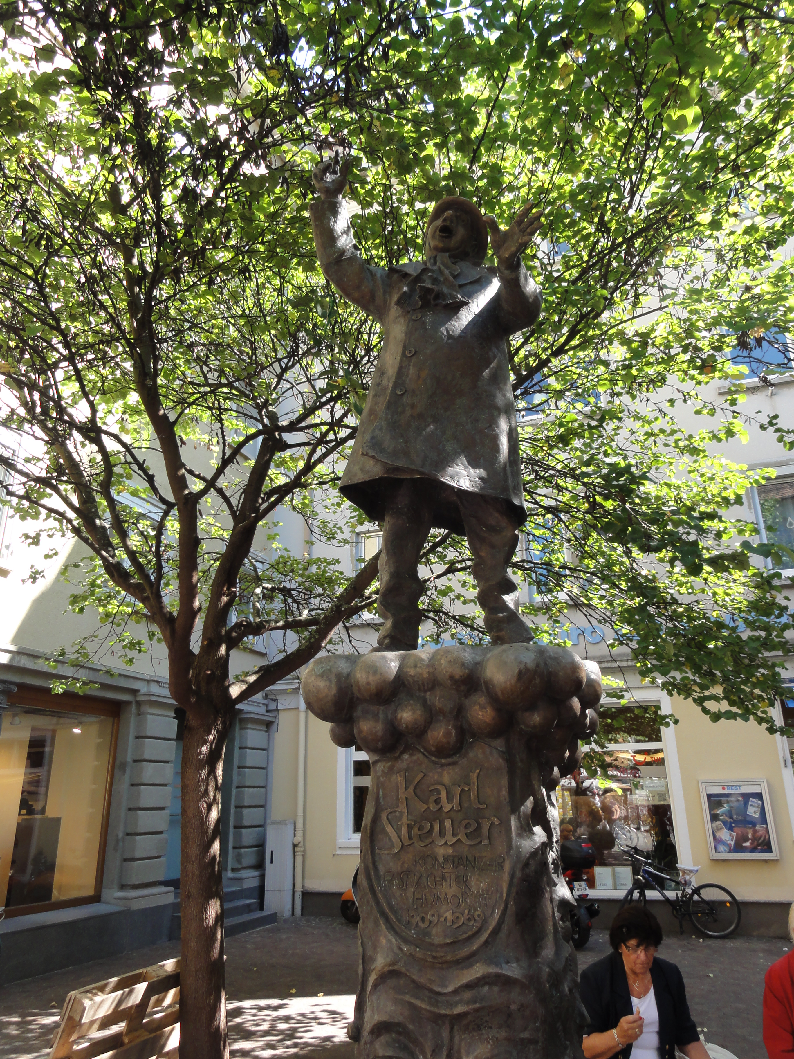 Konstanz, Germany. Sculpture on fountain in memory of carnival fool Karl Steuer (1909-1969).